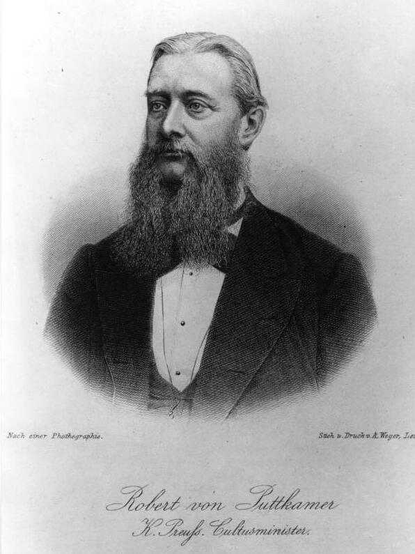 Robert Viktor von Puttkamer, Prussian Minister of Cultural Affairs (1879 - 1881), Prussian Minister of the Interior (1881 - 1888), Germany GND 116314338